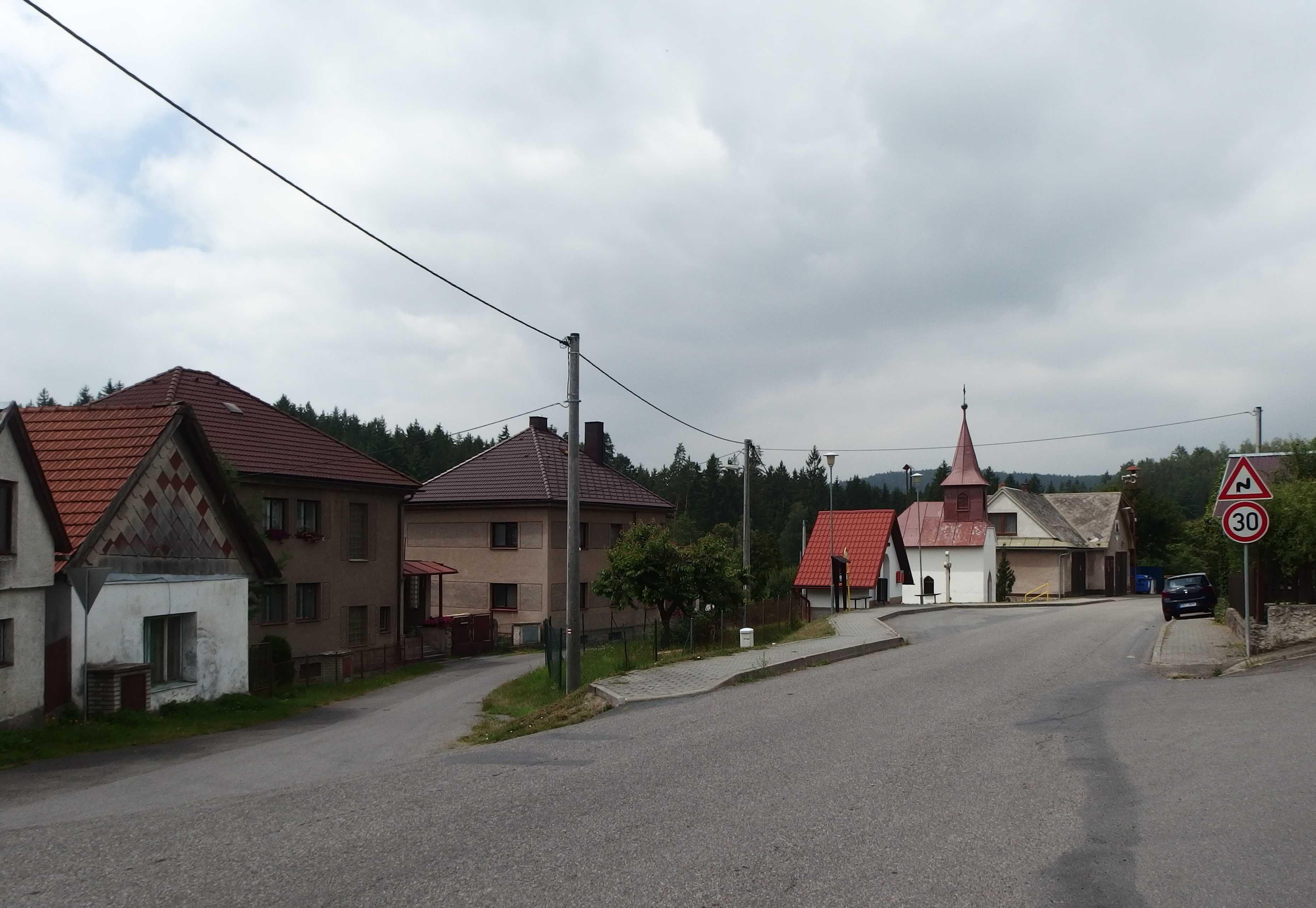 Hamry nad Sázavou, Žďár nad Sázavou District, Czechia, part Najdek.